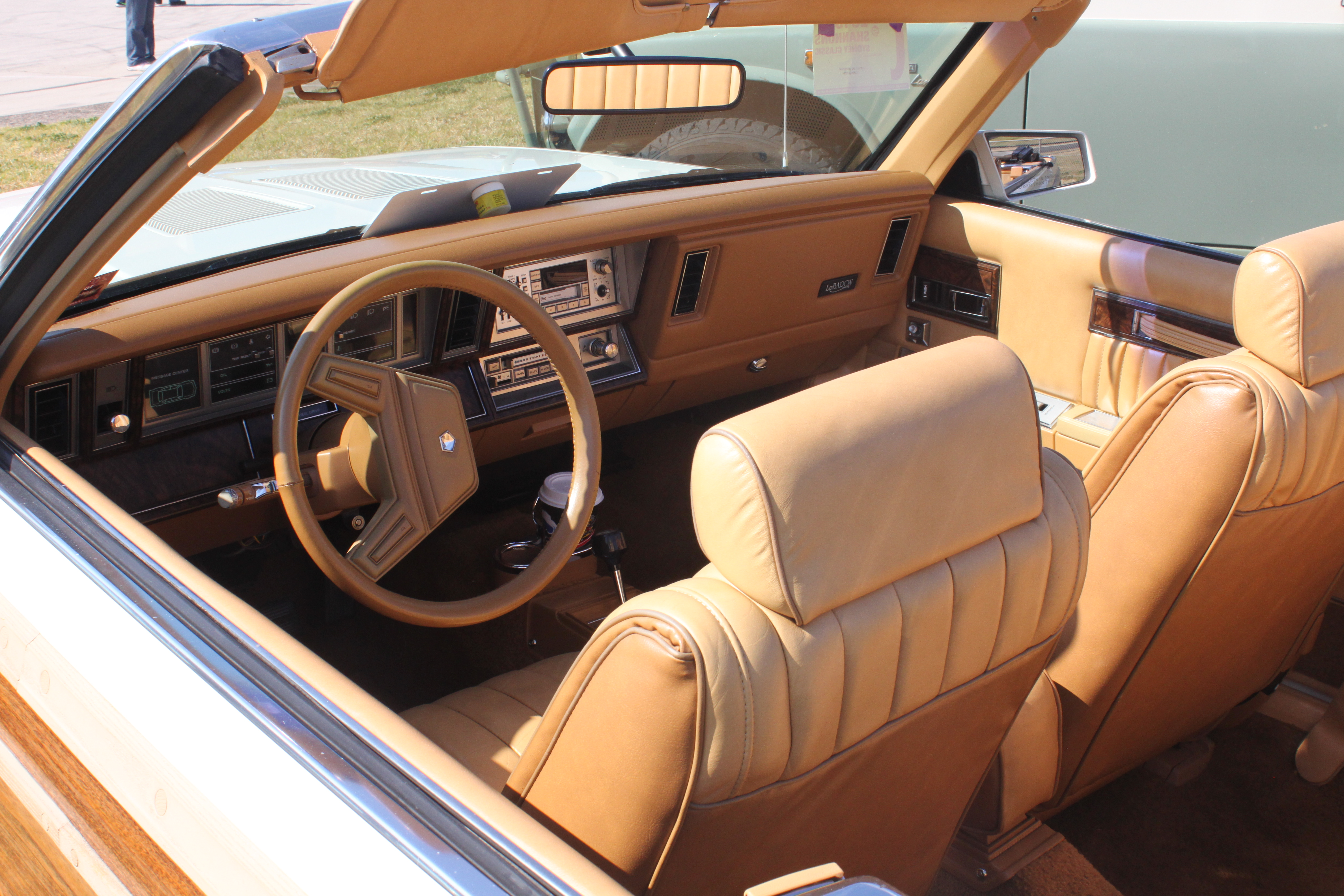 Shannon's Classic, Eastern Creek, NSW August 2015